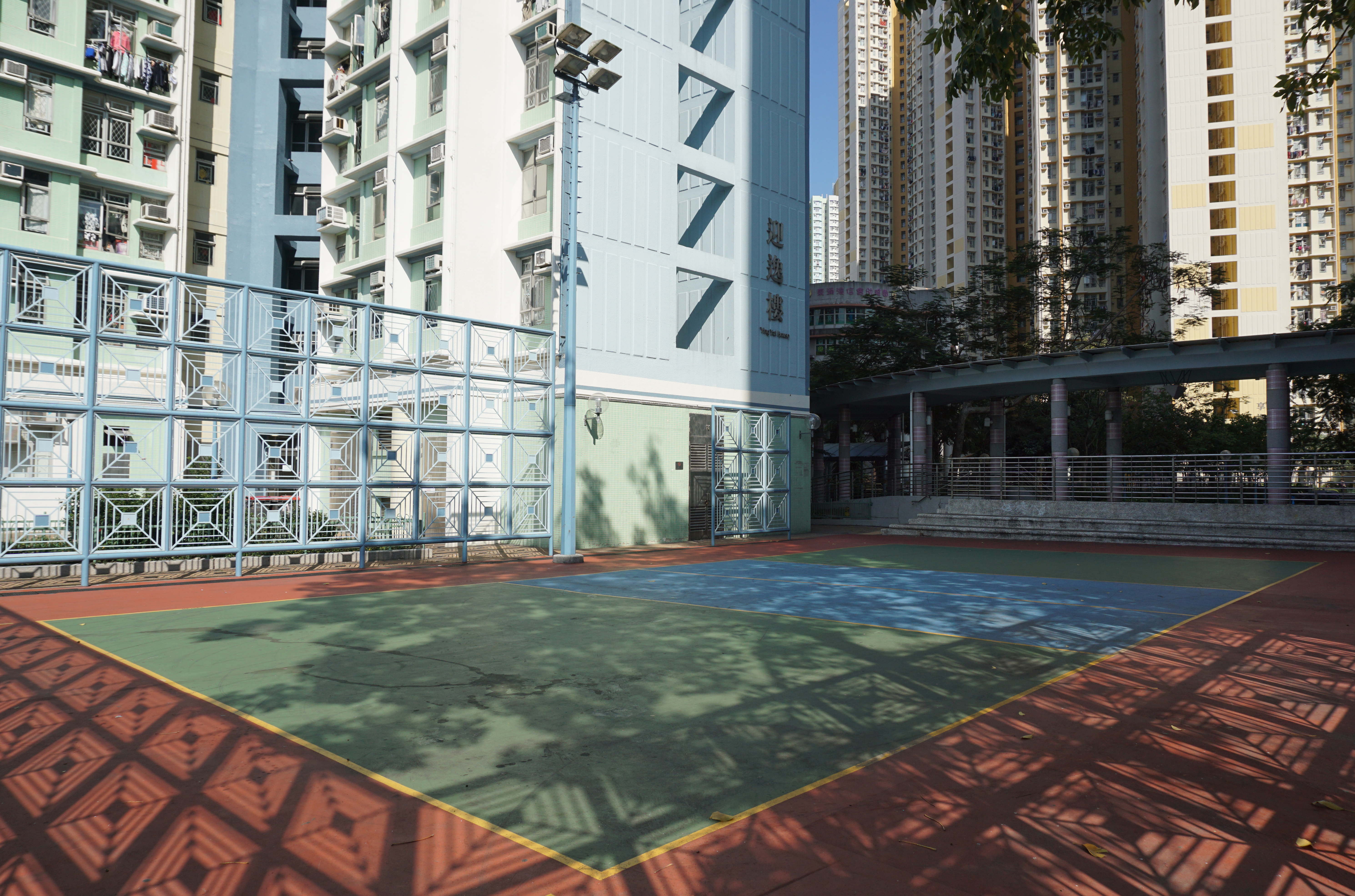 Yat Tung Estate in Tung Chung, Hong Kong.